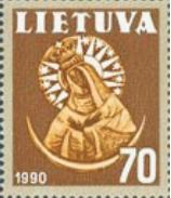 Lithuanian postage stamp.